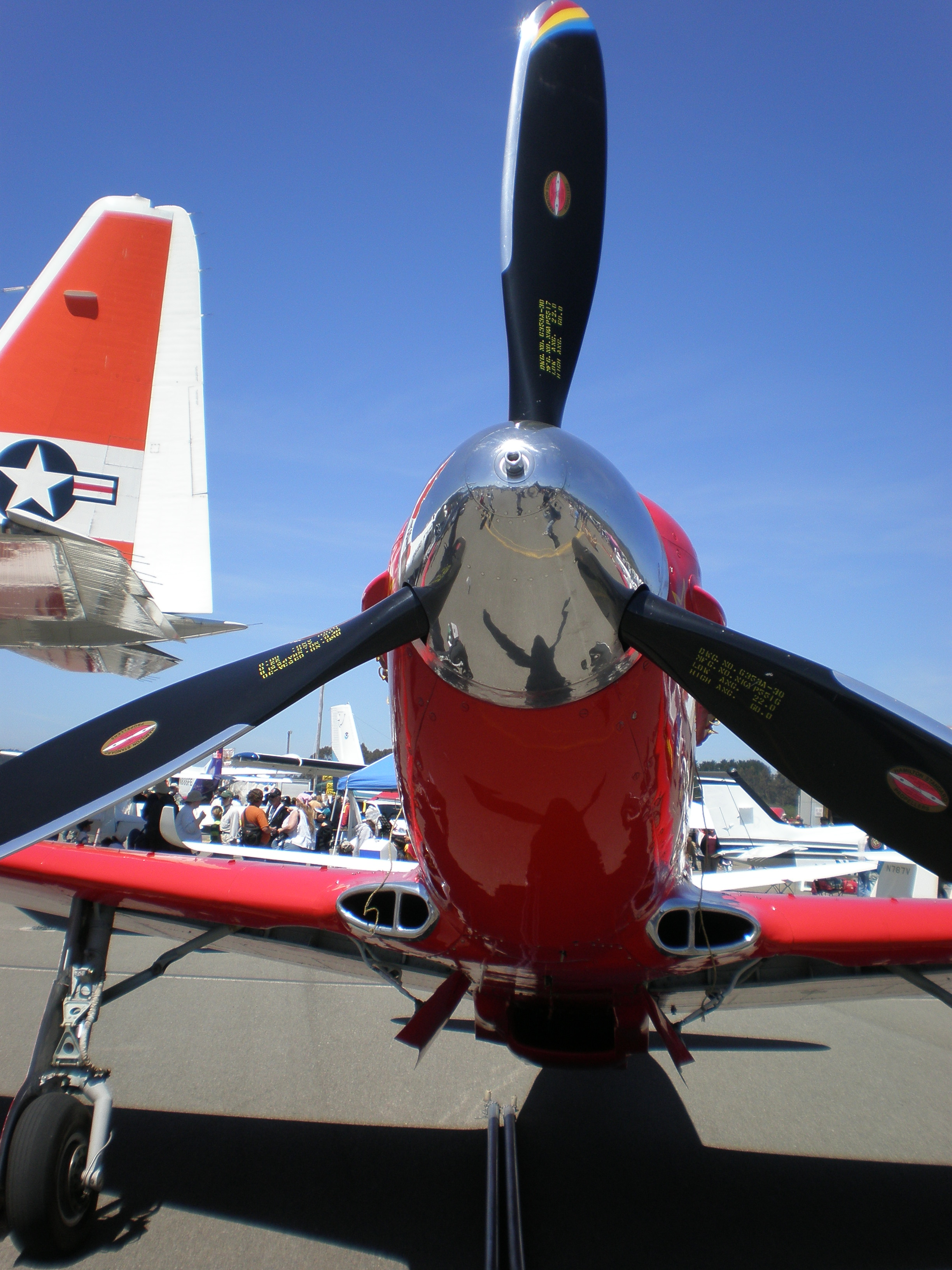 The Yakovlev Yak-9U "Barbarossa" at the Pacific Coast Dream Machines vehicle show at the Half Moon Bay Airport in Half Moon Bay, California.